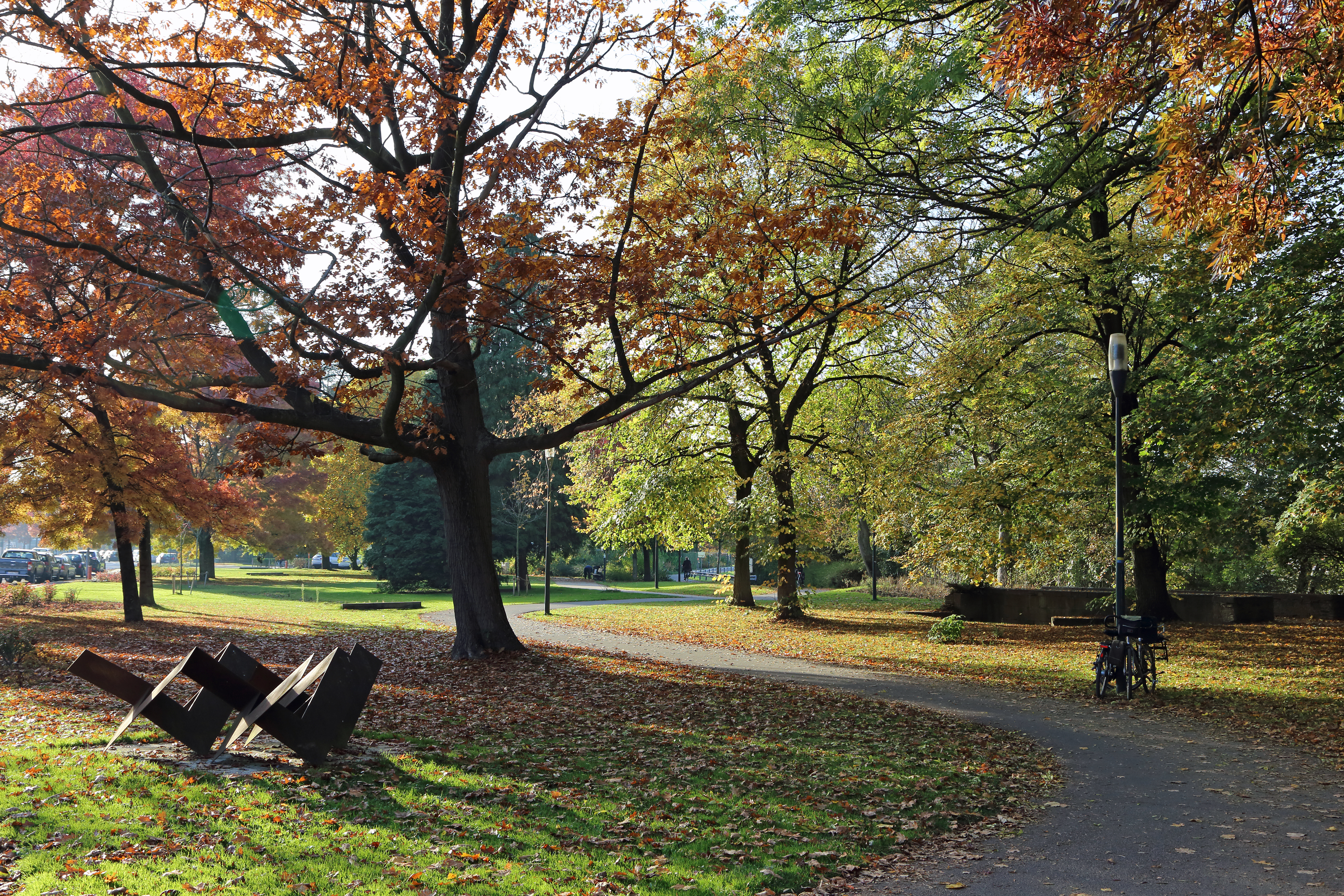 Bruges (Belgium): Baron Ruzette Park